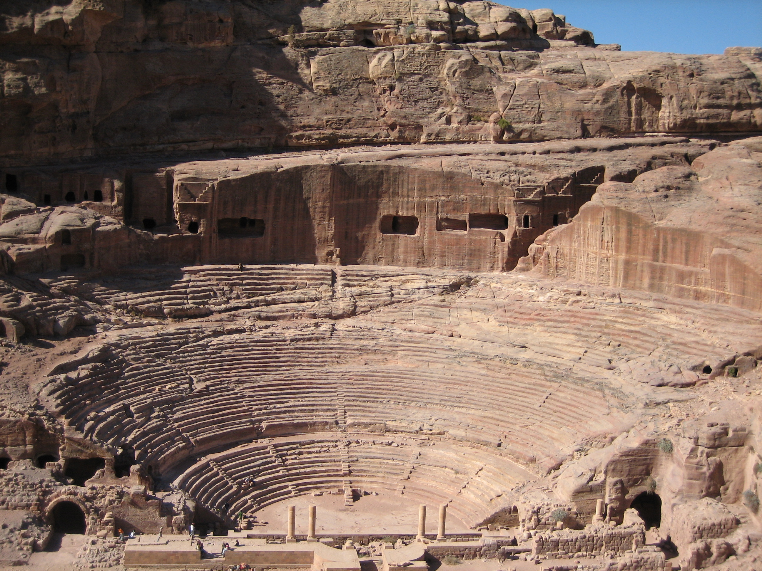 Petra, Jordan